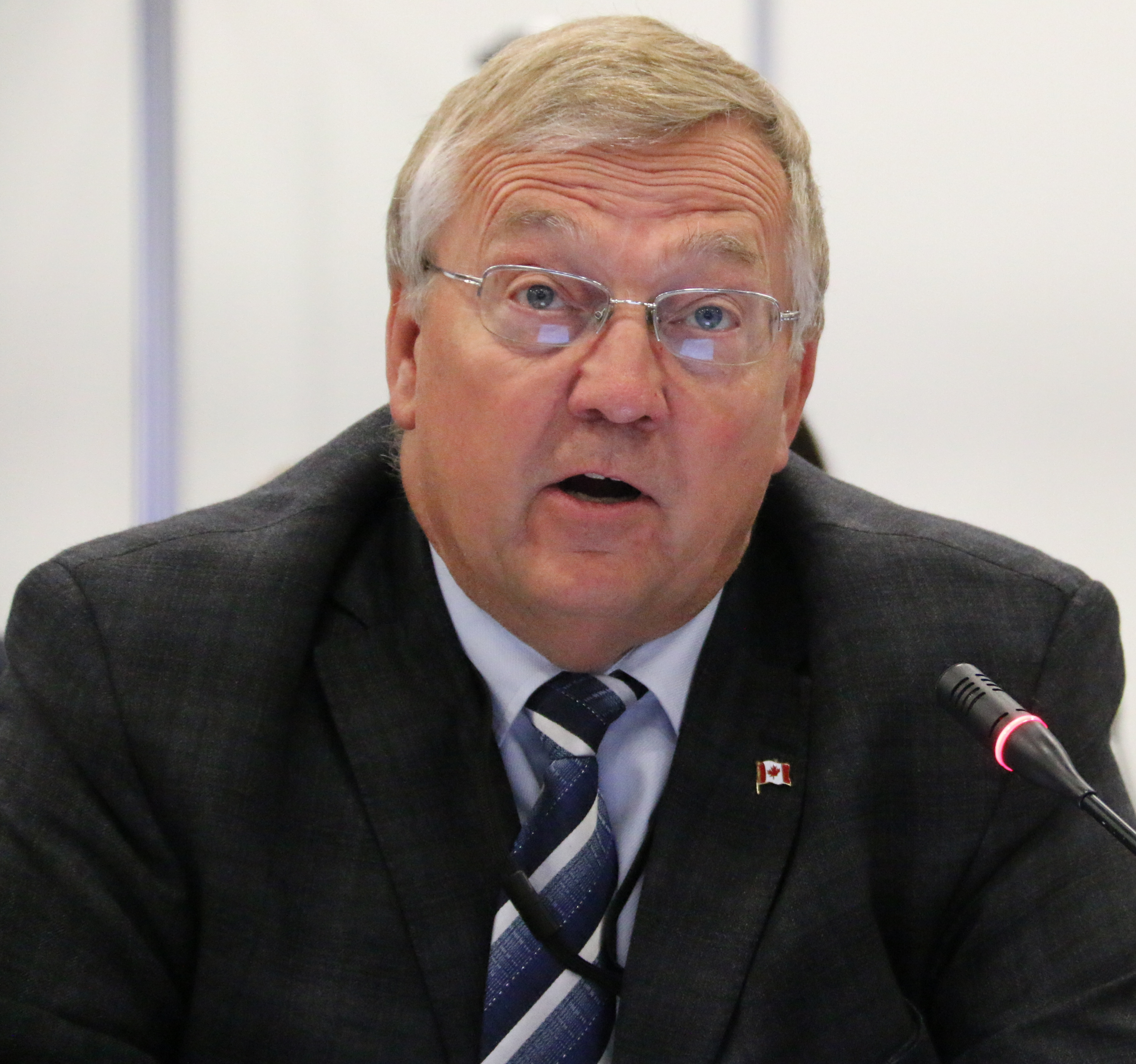 Earl Dreeshen (Canada) during the 2016 Annual Session of the OSCE Parliamentary Assembly.